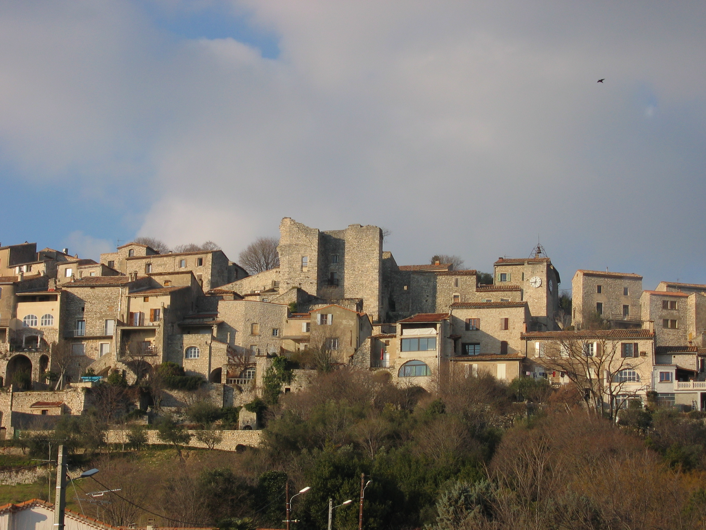 Photo taken by Poppy in January 2006. Vézénobres - Village (detail).